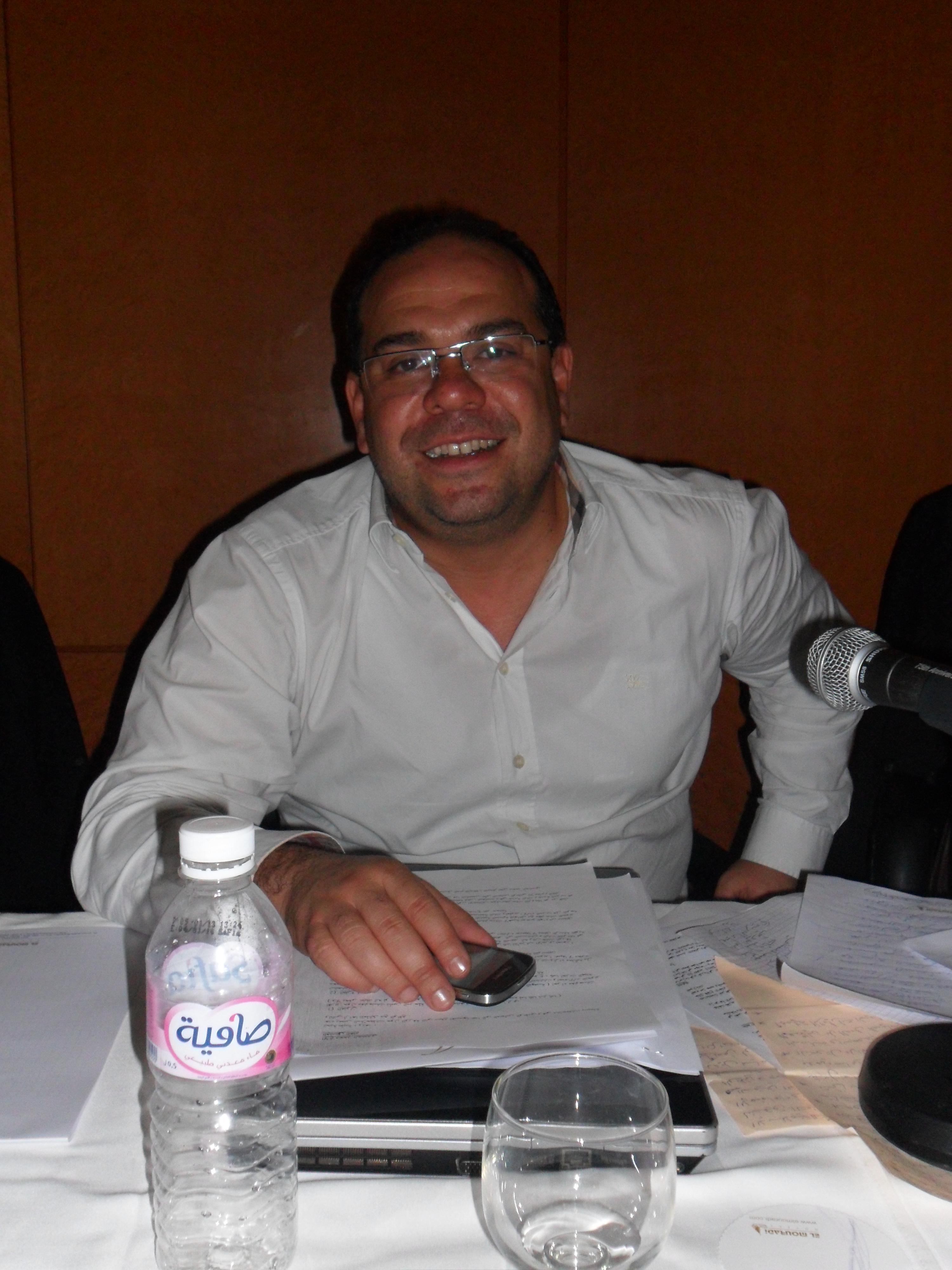 Mehdi Ben Gharbia (1973- ), businessman and member of Constituent Assembly of Tunisia